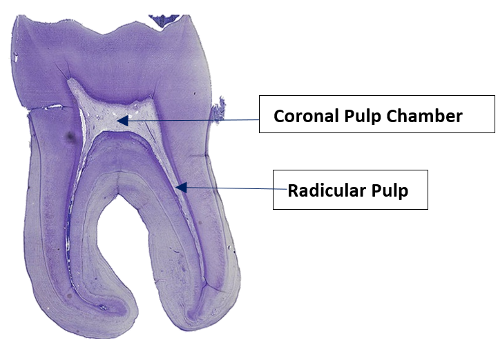 A decalcified longitudinal section through a molar tooth stained with methylene blue. Note the enamel is not present and the cementum exhibits hypercementosis. virtual microscope “Tooth Longitudinal 5”